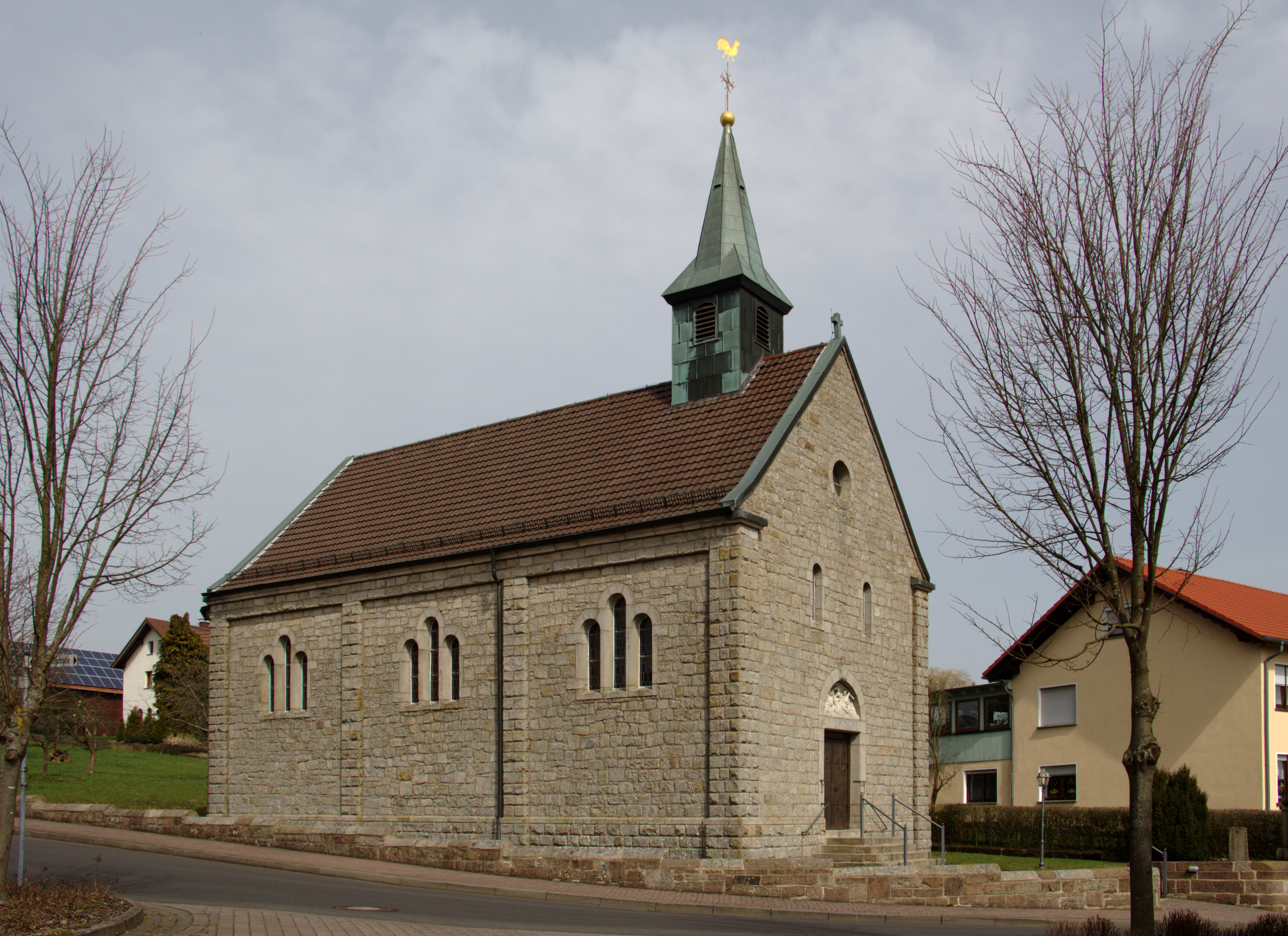 Catholic Church (Mariä Himmelfahrt) in Buchenrod, Flieden, Hesse, Germany